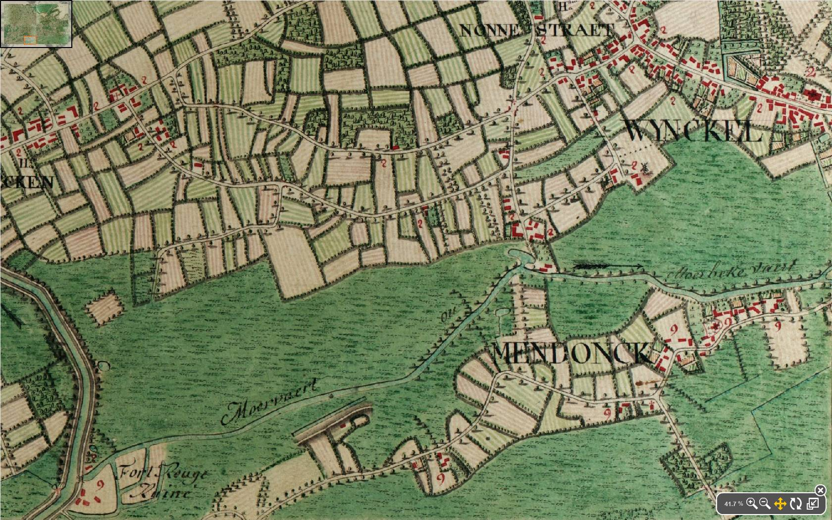 Moervaart,_Mendonk,_Belgium_op_de_Ferrariskaart,_1775.jpg